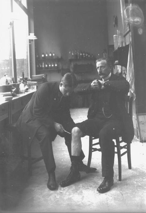 Van Gehuchten’s photograph, showing the Jendrassik maneuver to reinforce knee jerk.